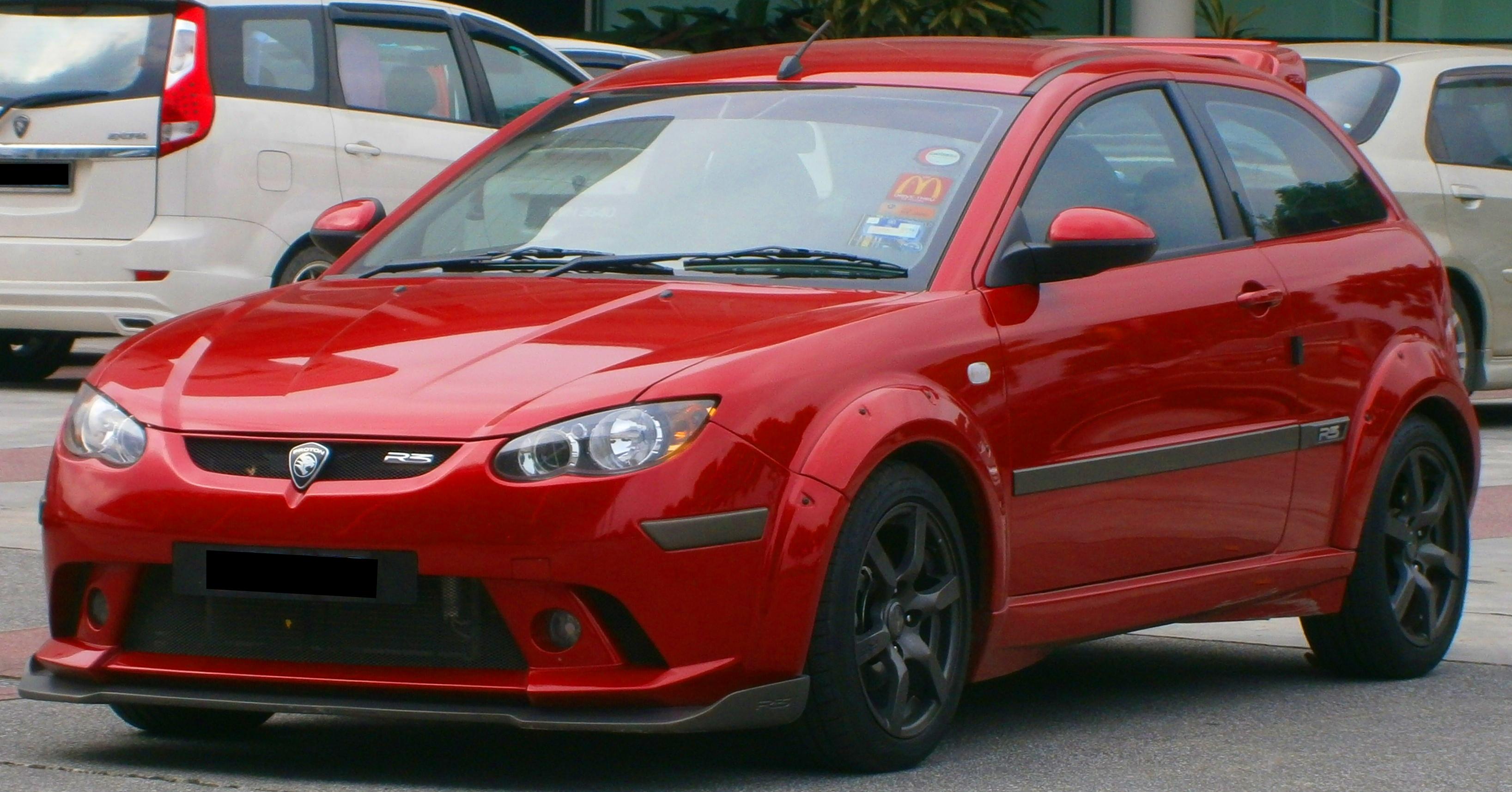 2013 Proton Satria Neo R3 in Cyberjaya, Malaysia. Colour : Fire Red Designed & Manufactured in Malaysia